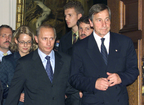 ESSEN. President Vladimir Putin with Wolfgang Clement, the Prime Minister of North Rhine-Westphalia.